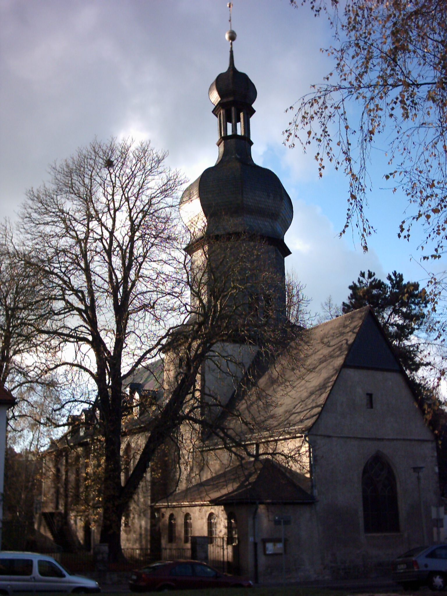 Martinskirche in Apolda